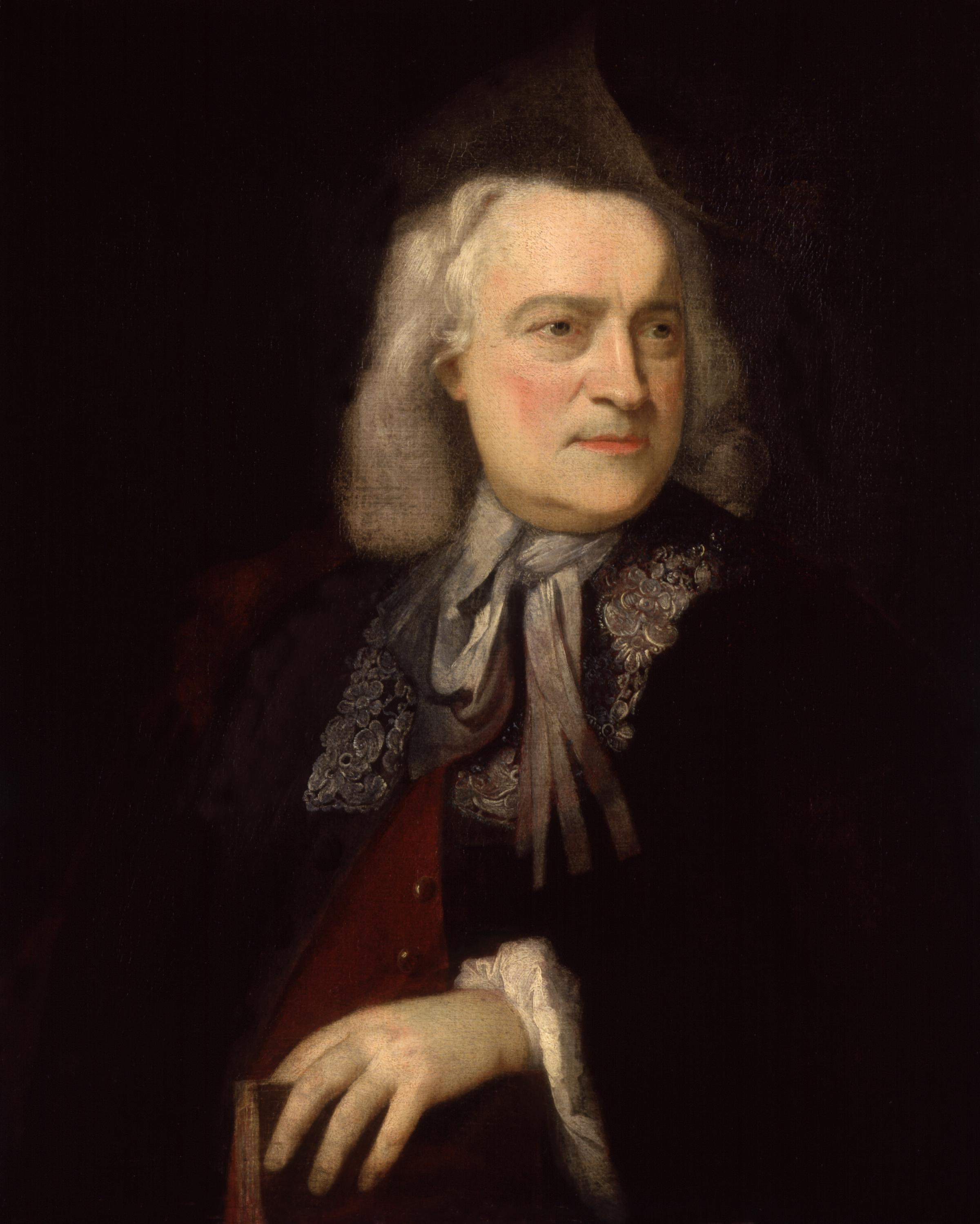 All images in this batch have been confirmed as author died before 1939 according to the official death date listed by the NPG.